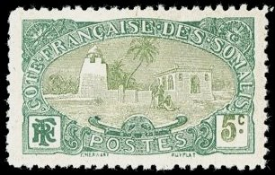 French Somali Coast 1909 5c Tadjoura Mosque stamp. Cote Francaise des Somalis.